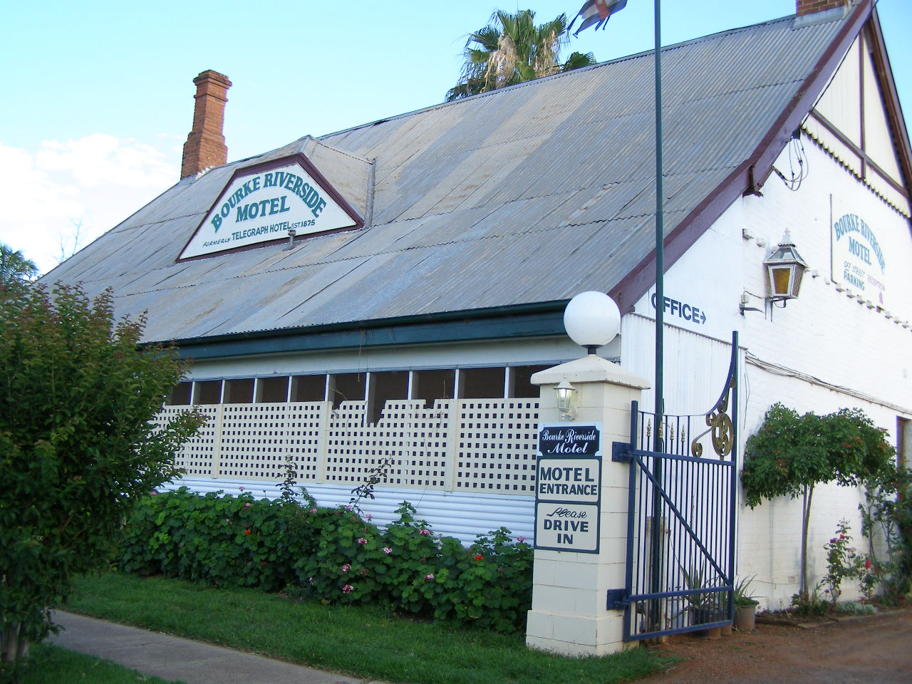 The historic Riverside Motel was originally the Telegraph Hotel established in 1875 in Bourke, New South Wales. It is situated beside the Darling River.